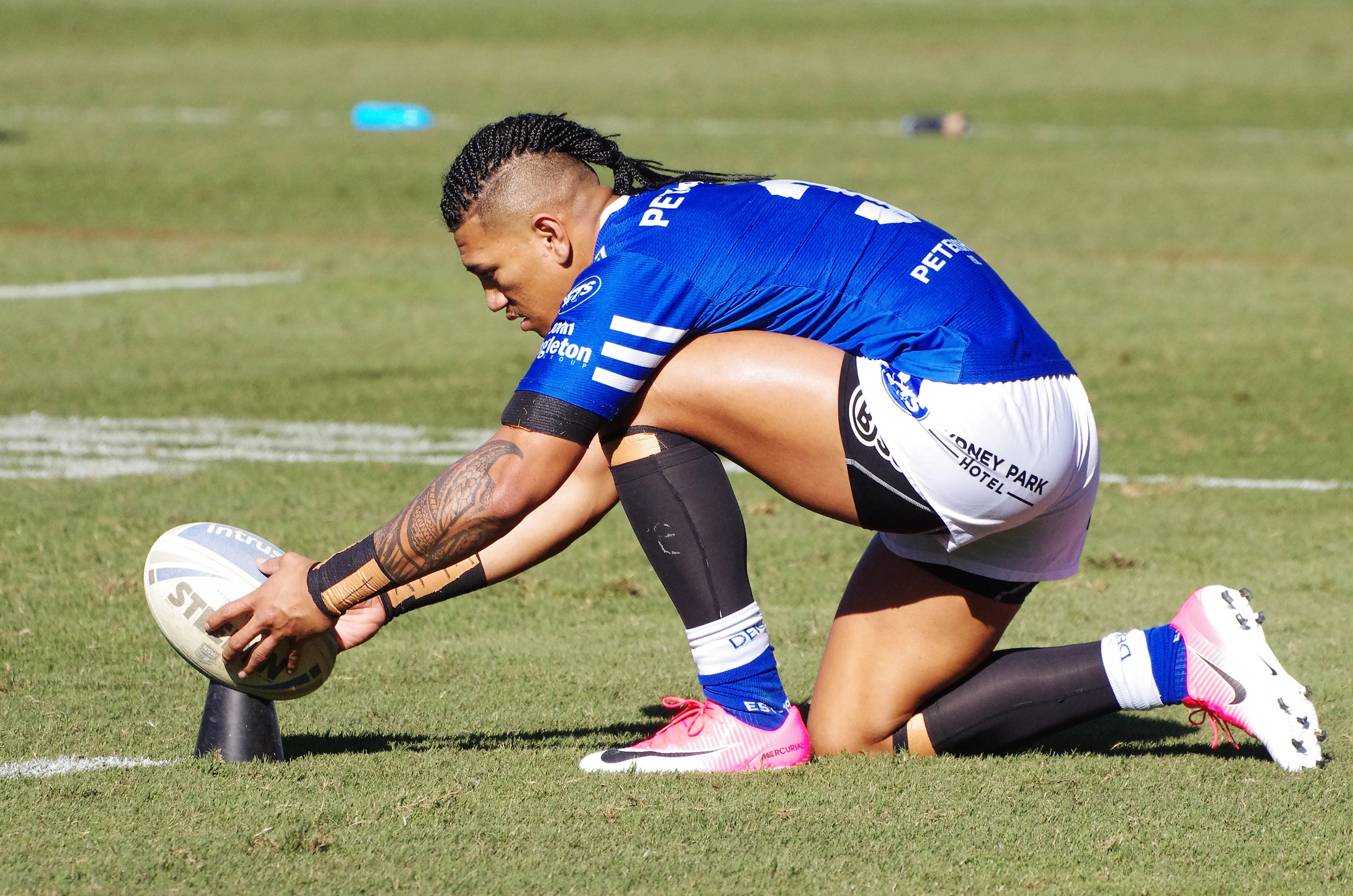 Australian rugby league player Bessie Aufaga-Toomaga preparing to take a place kick while playing for Newtown Jets in Premiership NSW.